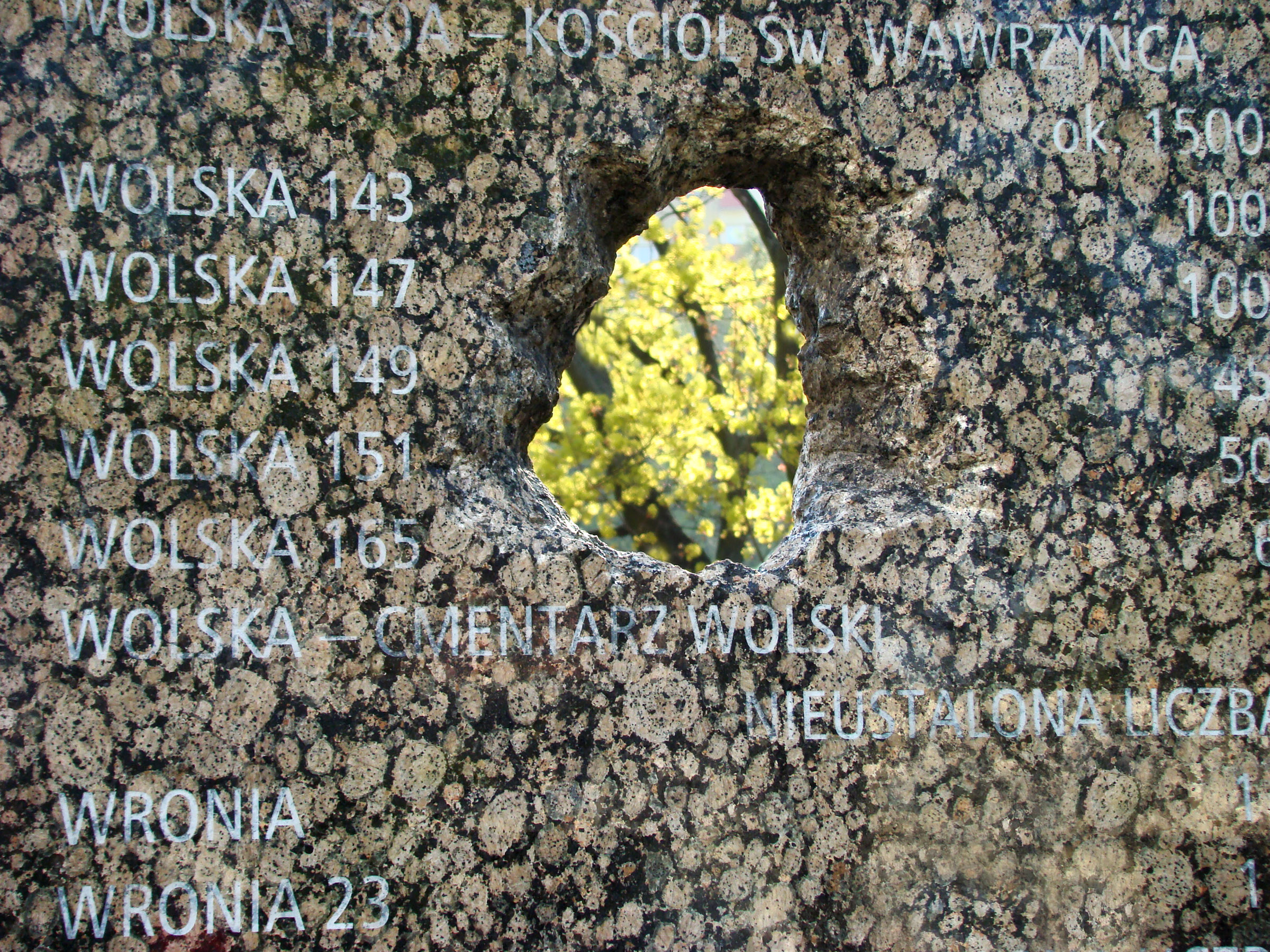 Wola massacre victims memorial - detail